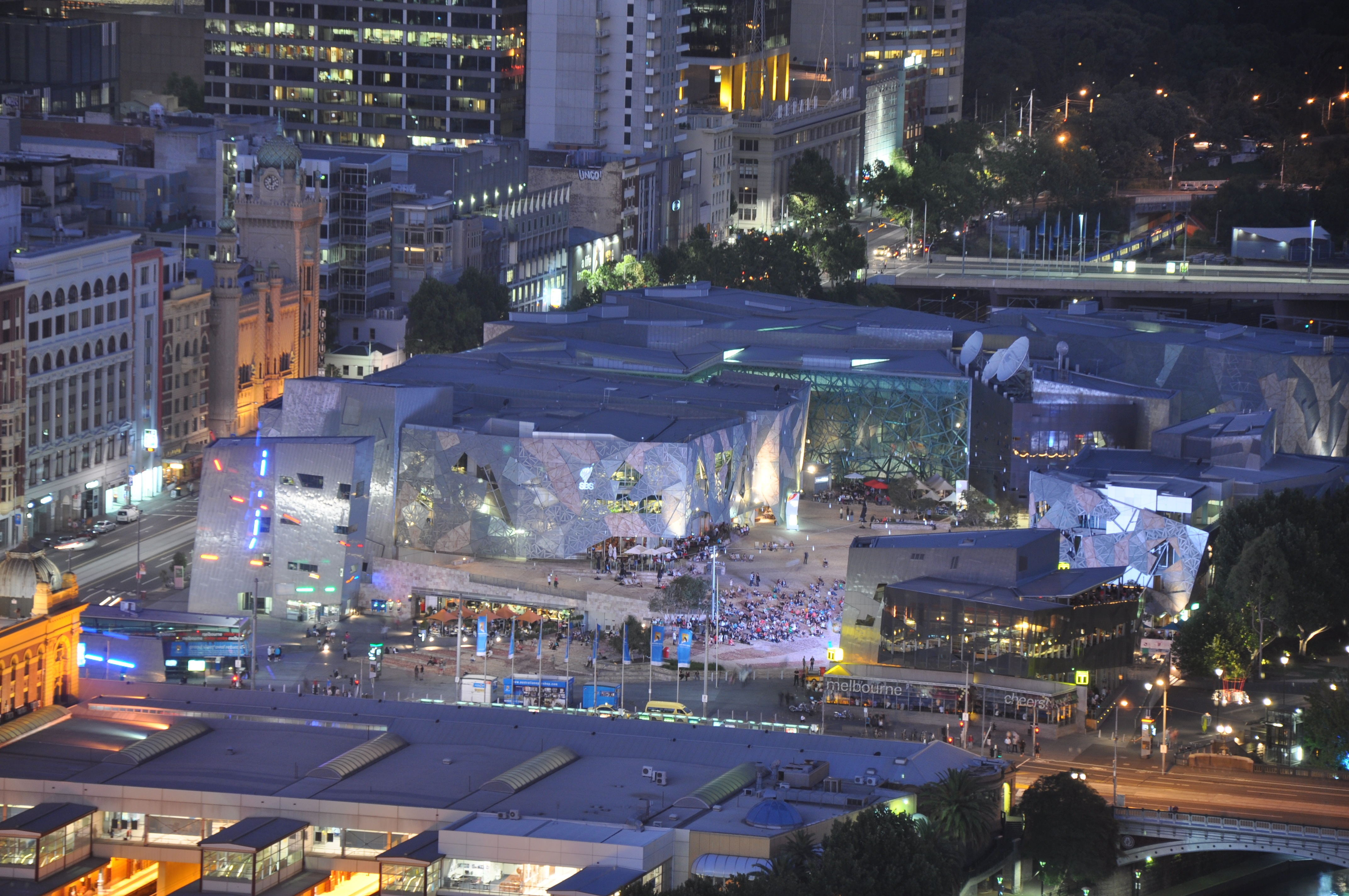 Federation Square (also colloquially contracted to Fed Square) is a civic centre and cultural precinct in the city of Melbourne, Victoria, Australia. It is a mixed-use development covering an area of 3.2 hectare and centred around two major public spaces, open squares (St. Paul's Court and The Square) and one covered (The Atrium) built on top of a concrete deck over busy railway lines and was opened in 2002. It is Victoria’s second most popular tourist attraction, attracting 8.41 million visitors in 2009. Its design has caused much controversy since its first planning and continued to divide opinion after its opening. Despite this, the precinct continues to expand. Unlike many Australian landmarks, it was not opened by the Queen, nor was she invited to its unveiling